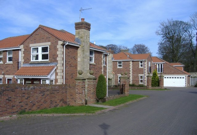 New housing development In the grounds of Burdon Hall.